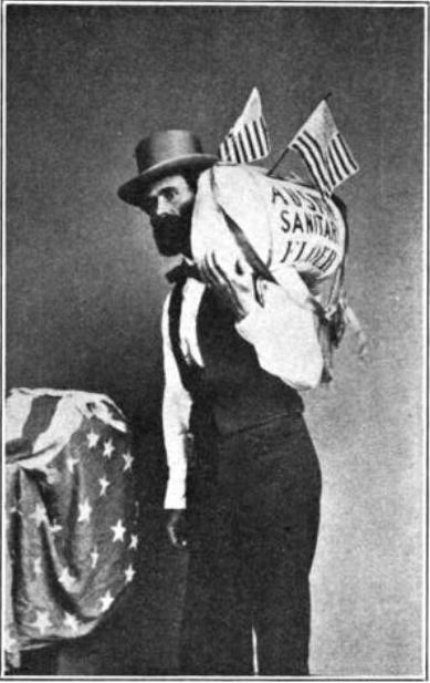 A photo of Reuel Colt Gridley, who became famous in the United States in 1864 by repeatedly selling a sack of flour to raise money for the "Sanitary Fund" (to help wounded U.S. Civil War veterans). This picture was reportedly published in Harper's Weekly in 1865.